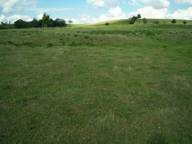 Site of the Medieval village of Upper Ditchford. Looking up the slope. Some of the bumps & ridges can just be made out.